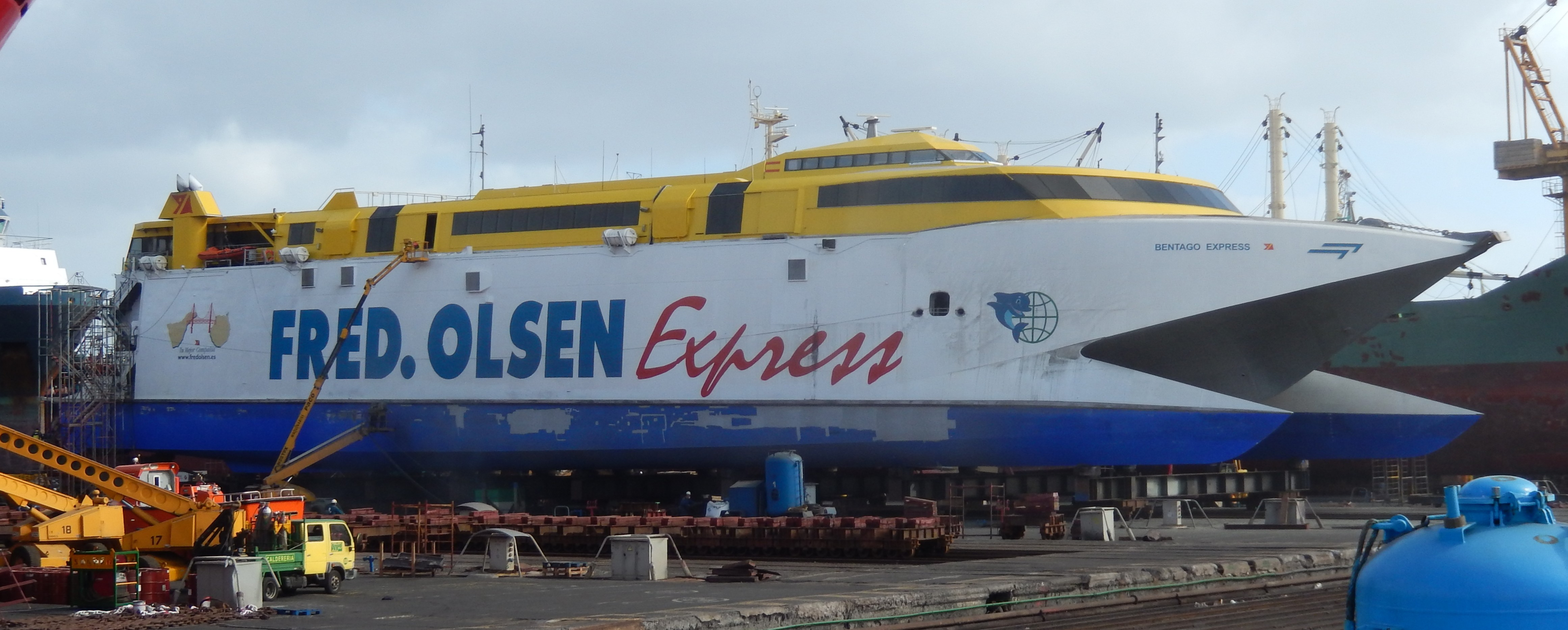 Bentago Express at ASTICAN yard in Las Palmas de Gran Canaria